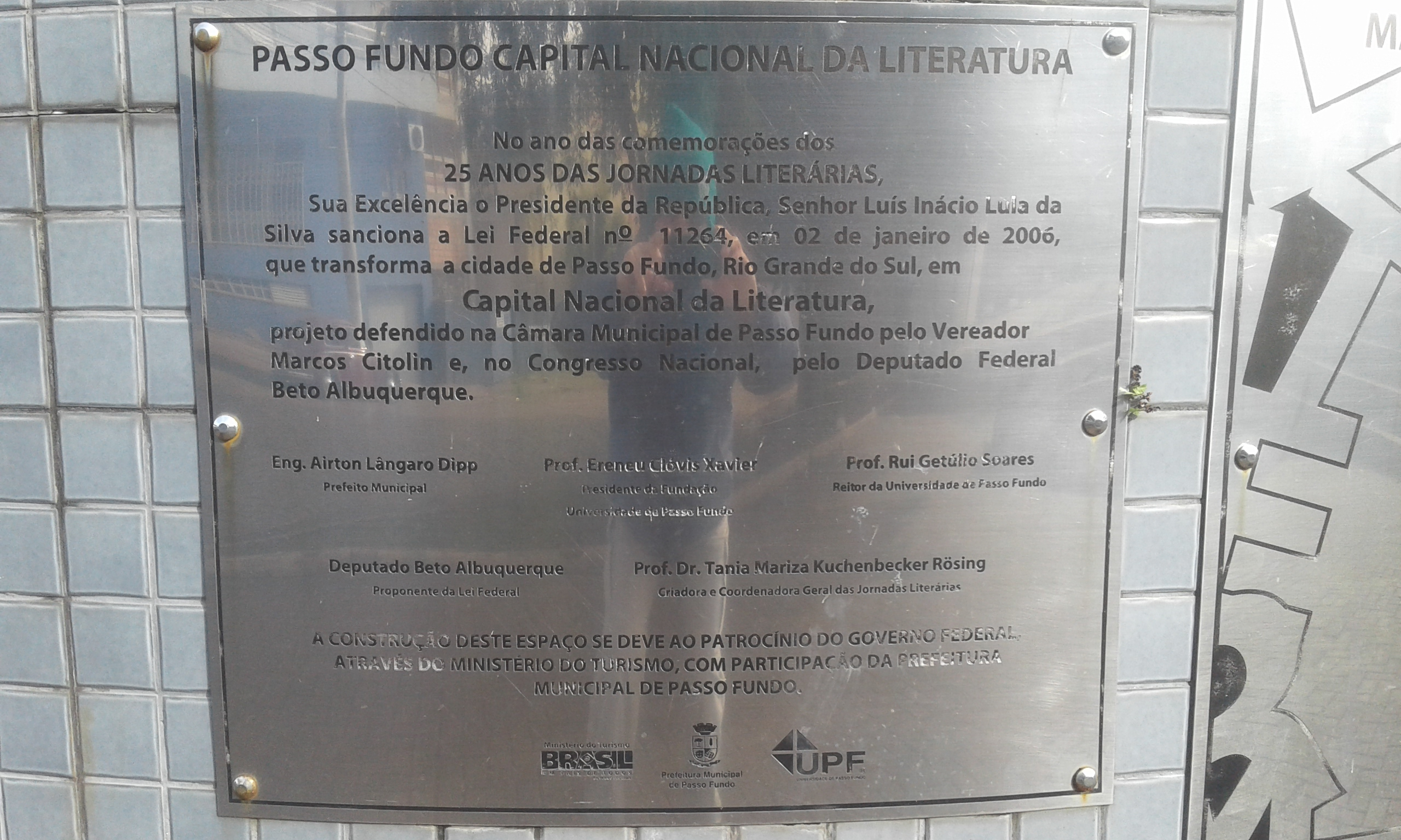 Plate in memorial of Passo Fundo as National Literature Capital